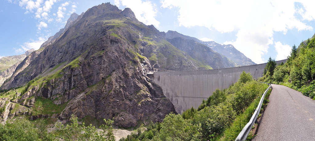 The Mauvoisin Dam at the southern end of the Lac de Mauvoisin. 250m high, and the eighth highest in the world. Taken on the seventh day of a variation of the Haute Route: Fionnay to Cabanes des Vignettes. Valais Switzerland 09/07/11 Nikon D5000 Location on Swiss Maps L to view large. ← & → to navigate.